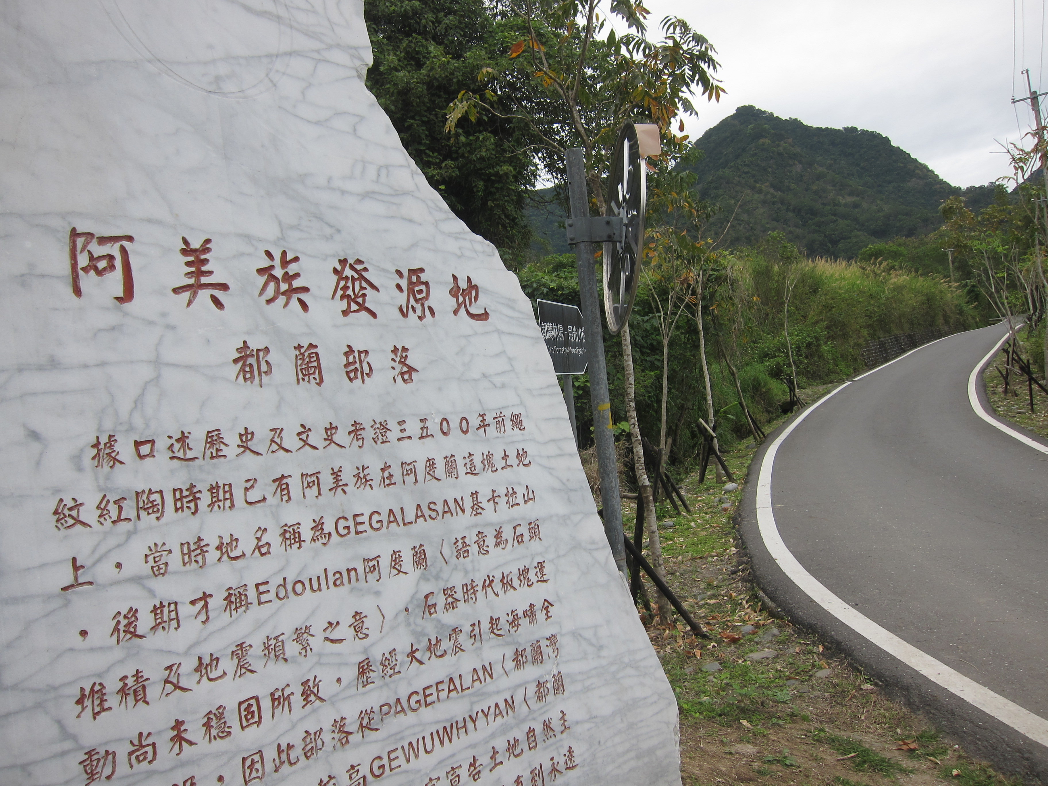 The stone monument written "the Origin of the Amis People" by a road in Dulan, Taitung, Taiwan.